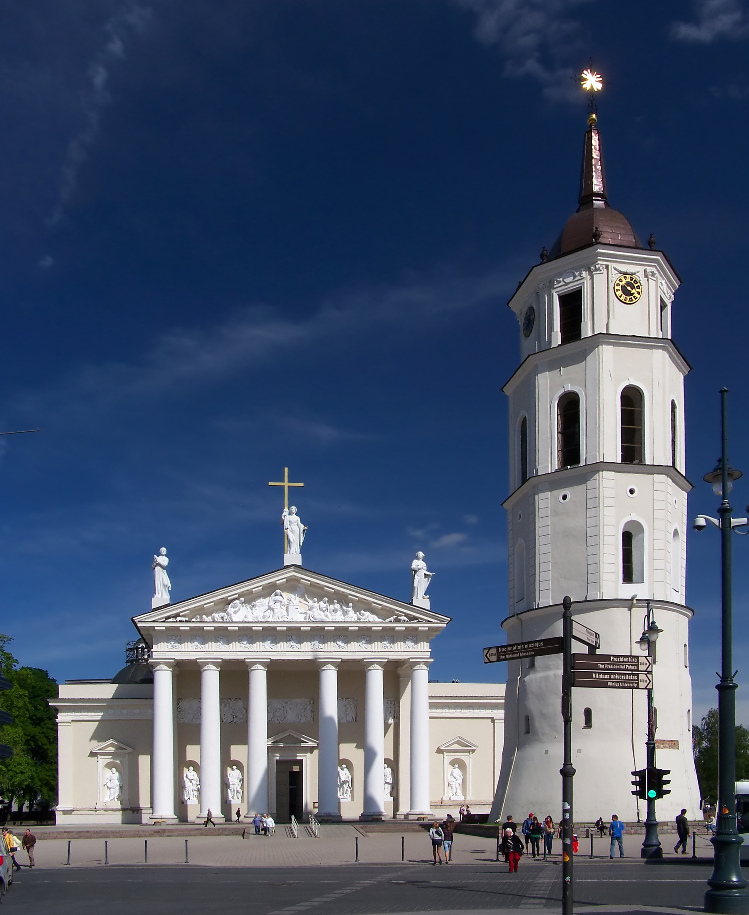 Cathedral in Vilnius (Lithuania).